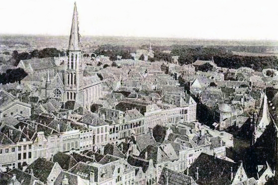 Centre of Zwolle, the Netherlands, with St Michaels church (demolished 1965) - Zwolle, Roggestraat - Michaël